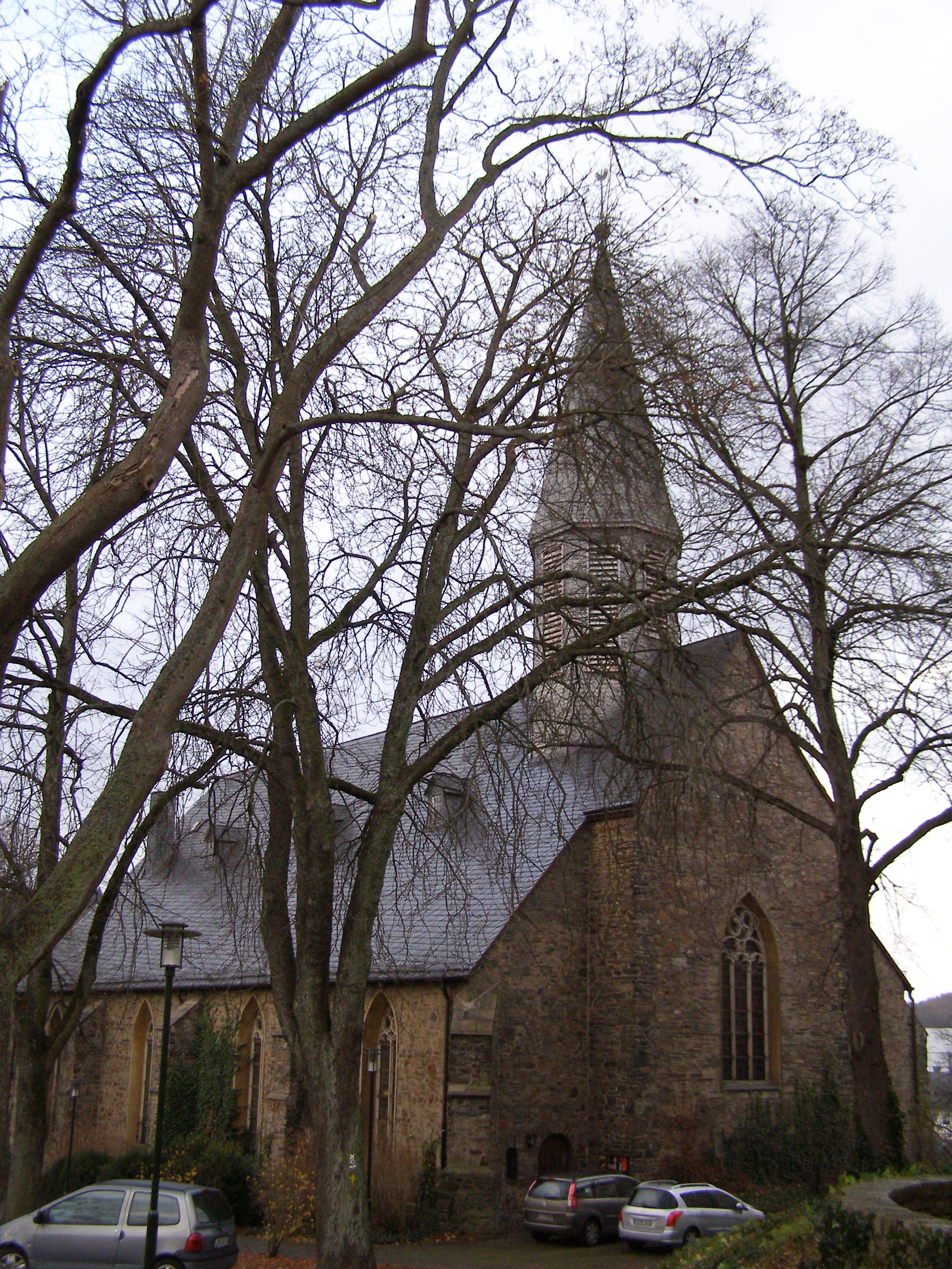 Siegen - church of St. Martin